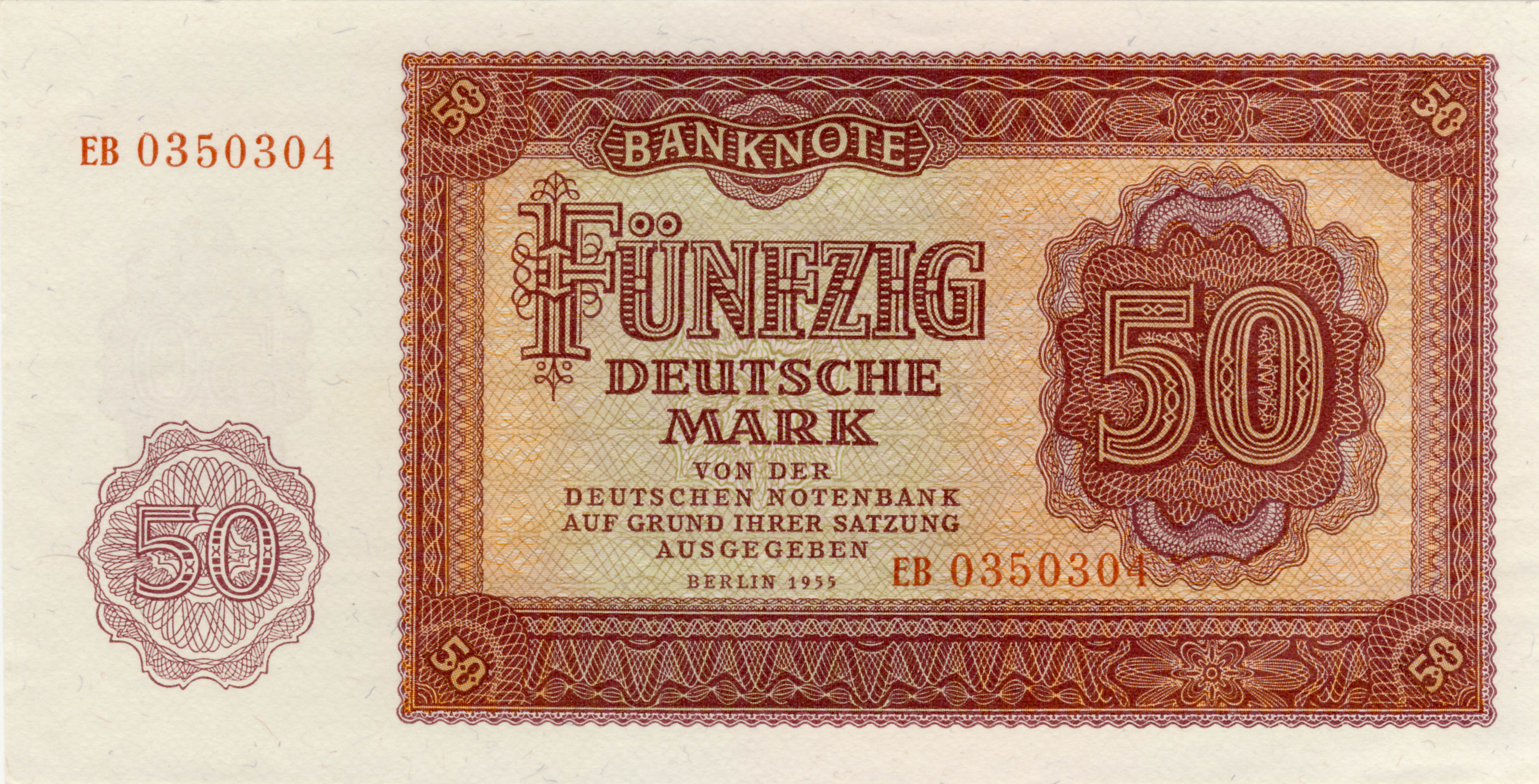 50 Mark of German Democratic Republic